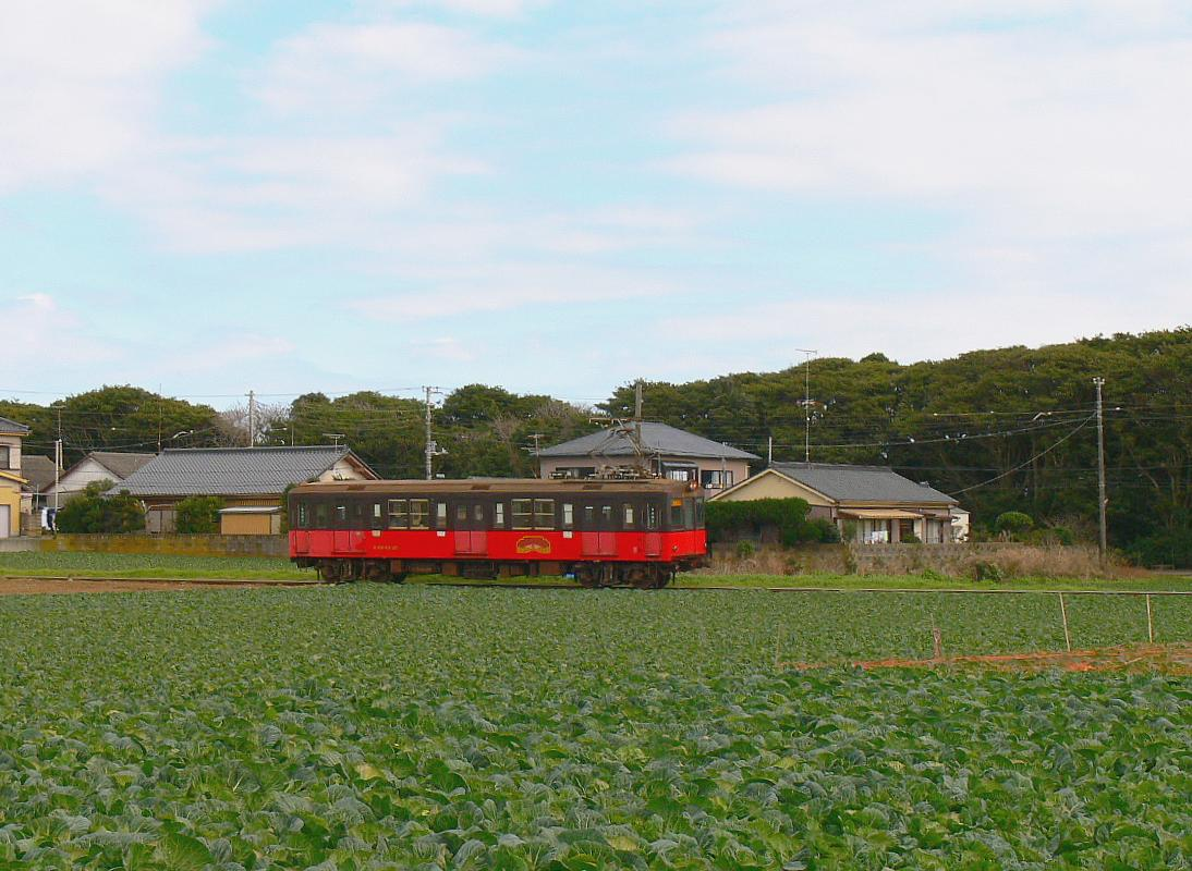 Choshi Electric Railway 1000 series EMU car on the Choshi Electric Railway Line in Chiba Prefecture, Japan